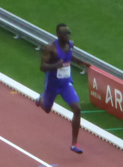 Edino Steele at the 2015 Meeting Areva, Stade de France, Paris.